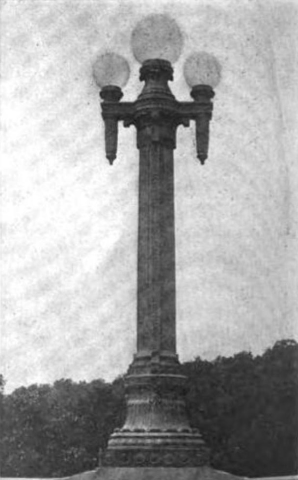 Original tungsten street light on the 16th Street Bridge in Washington, D.C., in the United States. Installed in 1910, the lamppost was made of cast iron, and the globe of ground glass.